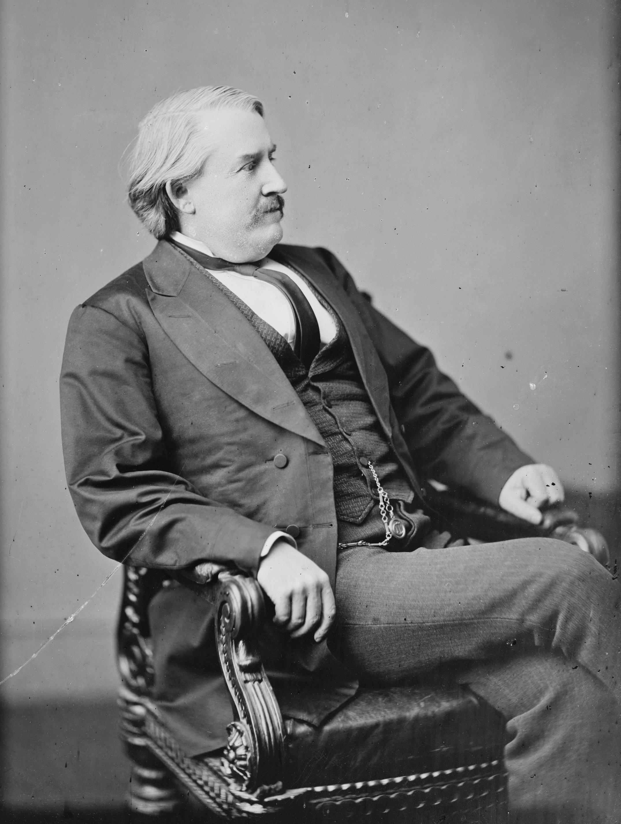 Thomas Theodore Crittenden. Library of Congress description: "Crittenden, Hon. Thomas Theodore (Rep of Missouri)"